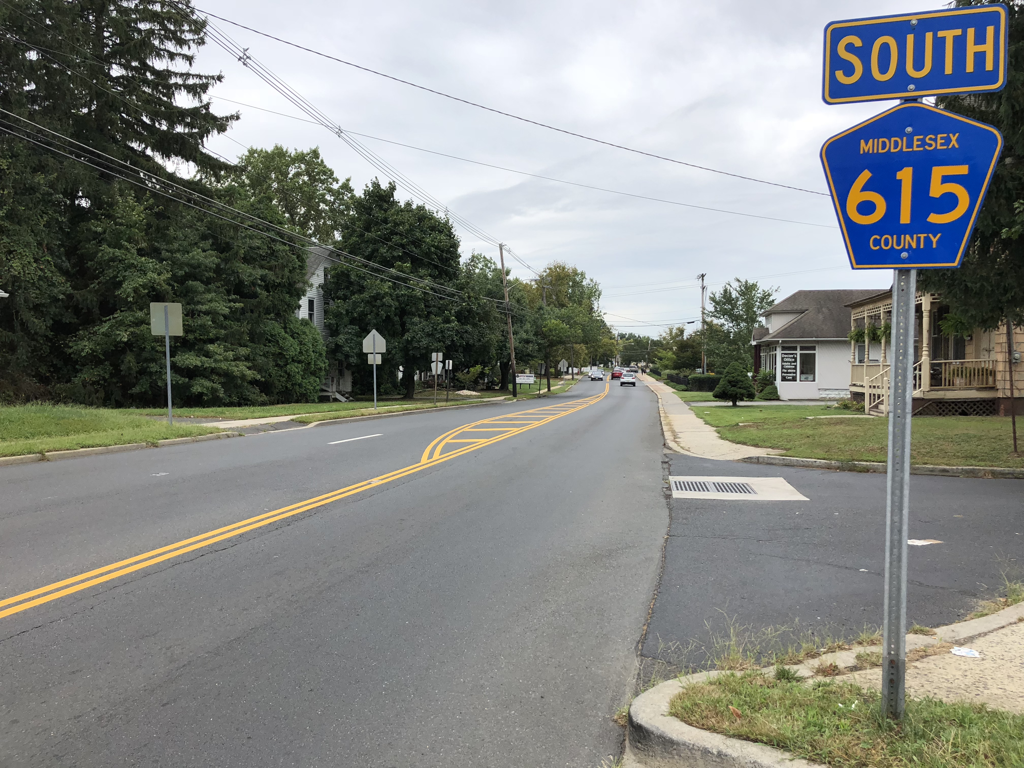 View south along Middlesex County Route 615 (Main Street) at Summerhill Road (Middlesex County Route 613) in Spotswood, Middlesex County, New Jersey